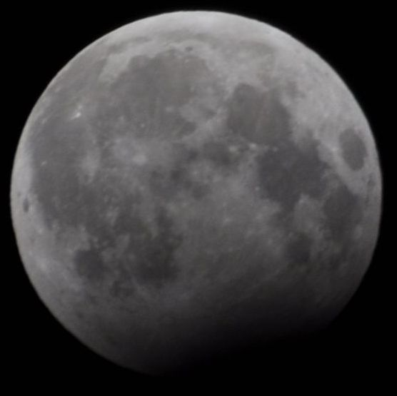 partial lunar eclipse as seen from SW Ireland